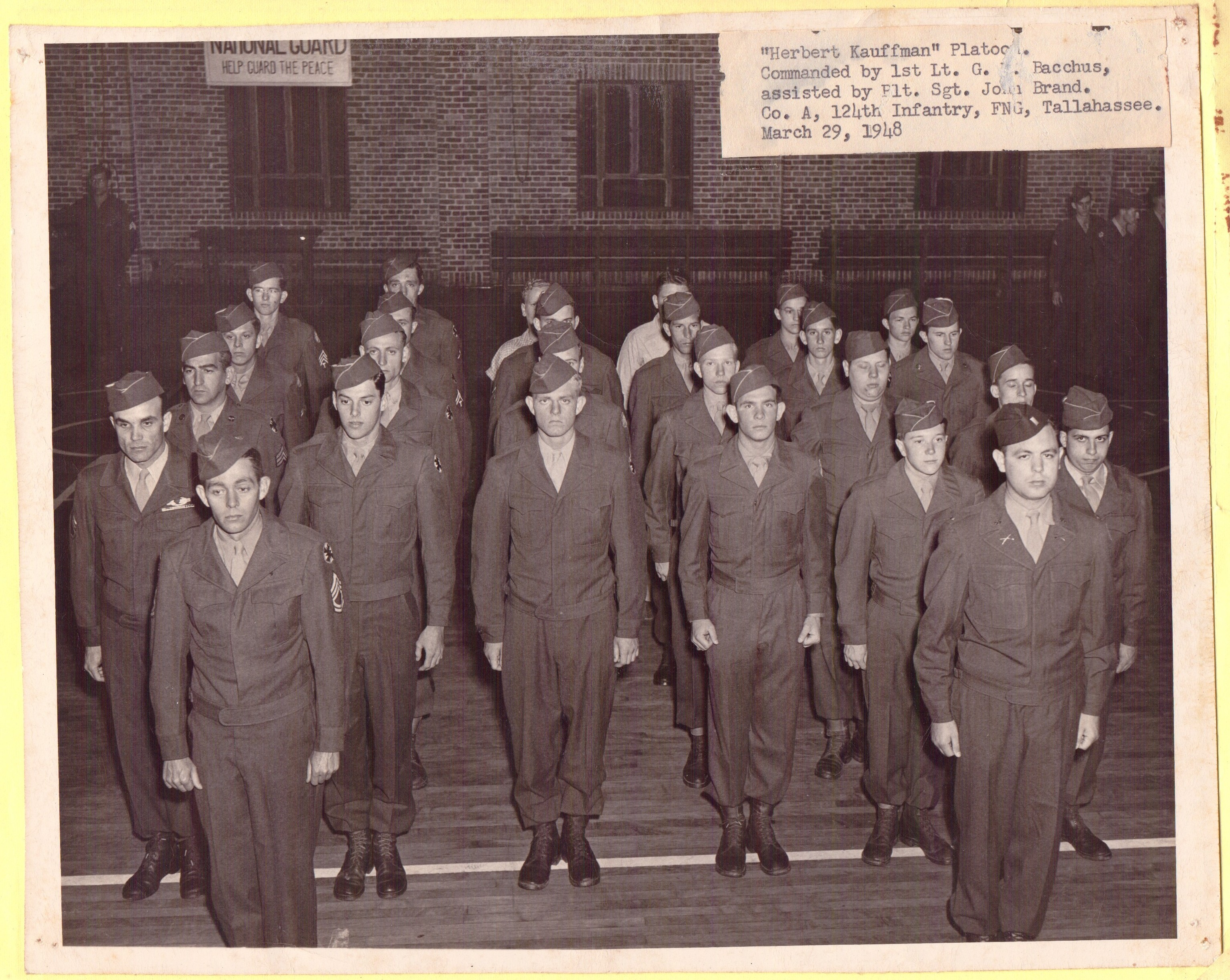 "Herbert Kauffman" Platoon., Co A, 124th Infantry, 48th Infantry Division, FNG, Tallahassee, FL, March 29, 1948